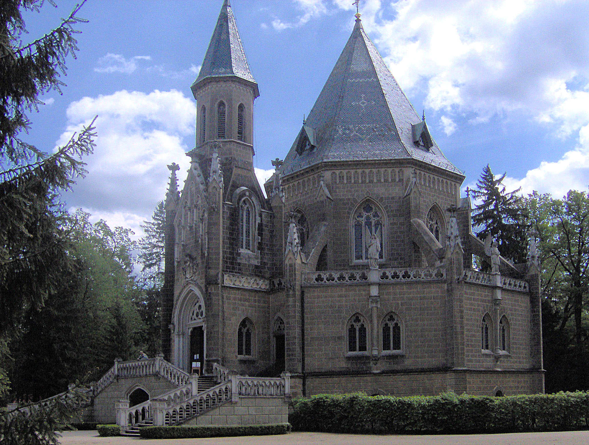 Schwarzenberg's crypt near Třeboň, South Bohemian Region, Czech republic